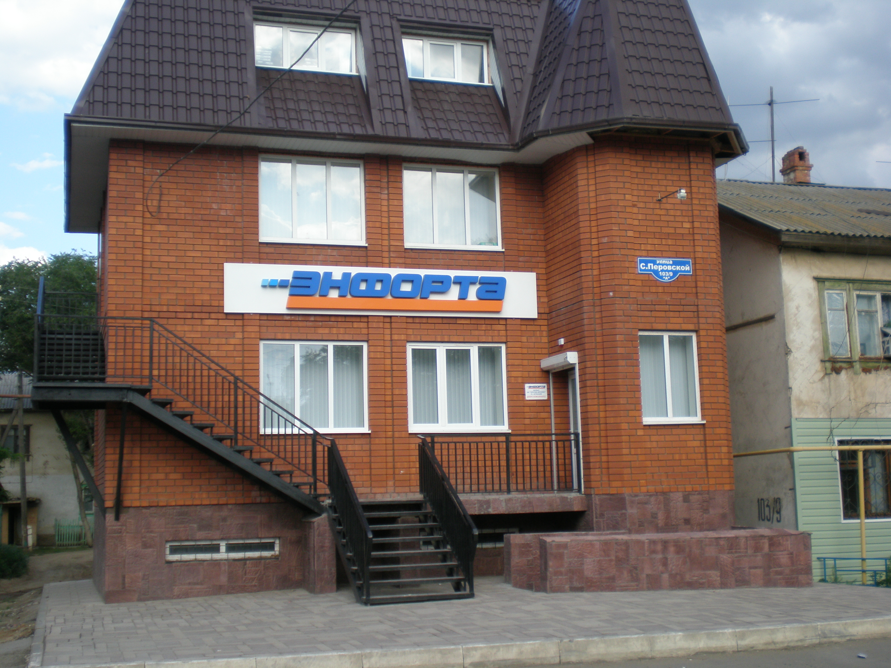 office